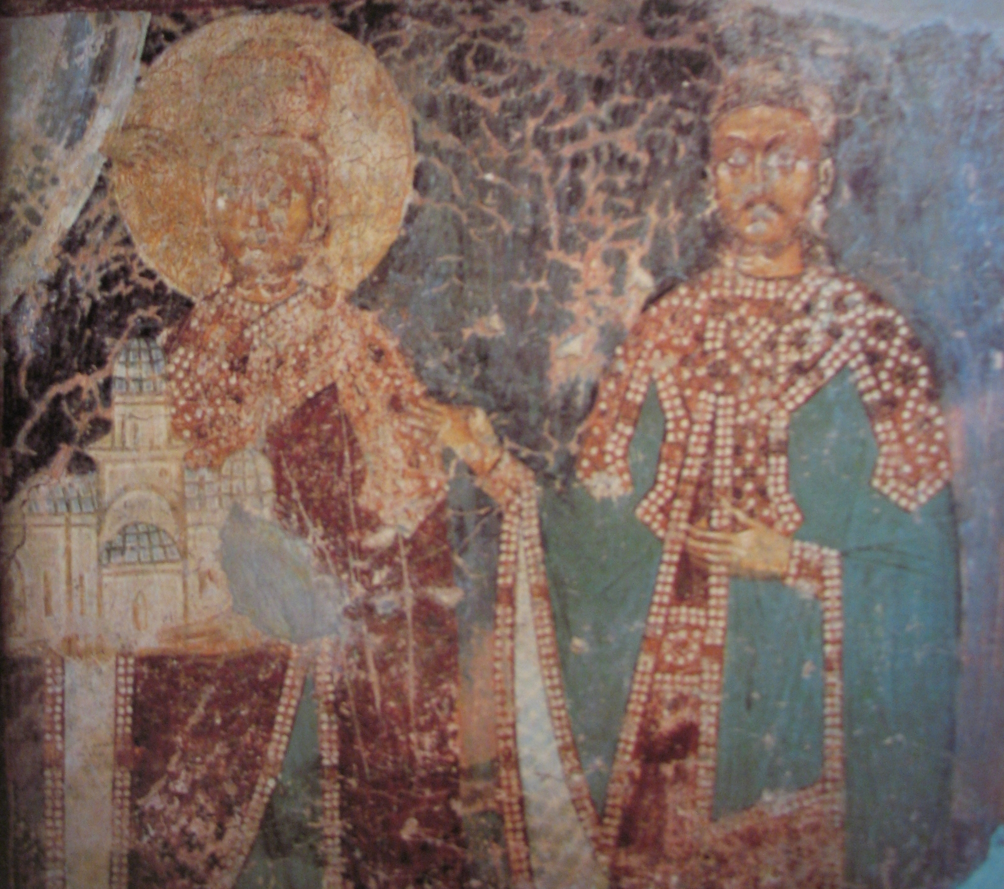 Fresco of Stefan and Vuk Lazarević in Rudenica, near Aleksandrovac, Serbia.